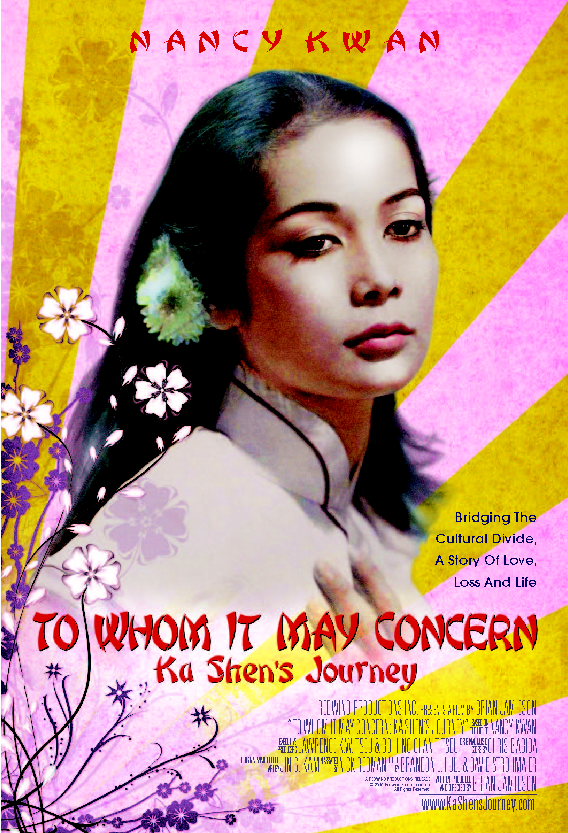 The art for the film poster for To Whom It May Concern: Ka Shen's Journey was created by Louis Falzarano of Soda Design, at the direction of Brian Jamieson and is owned by Redwind Productions Inc.